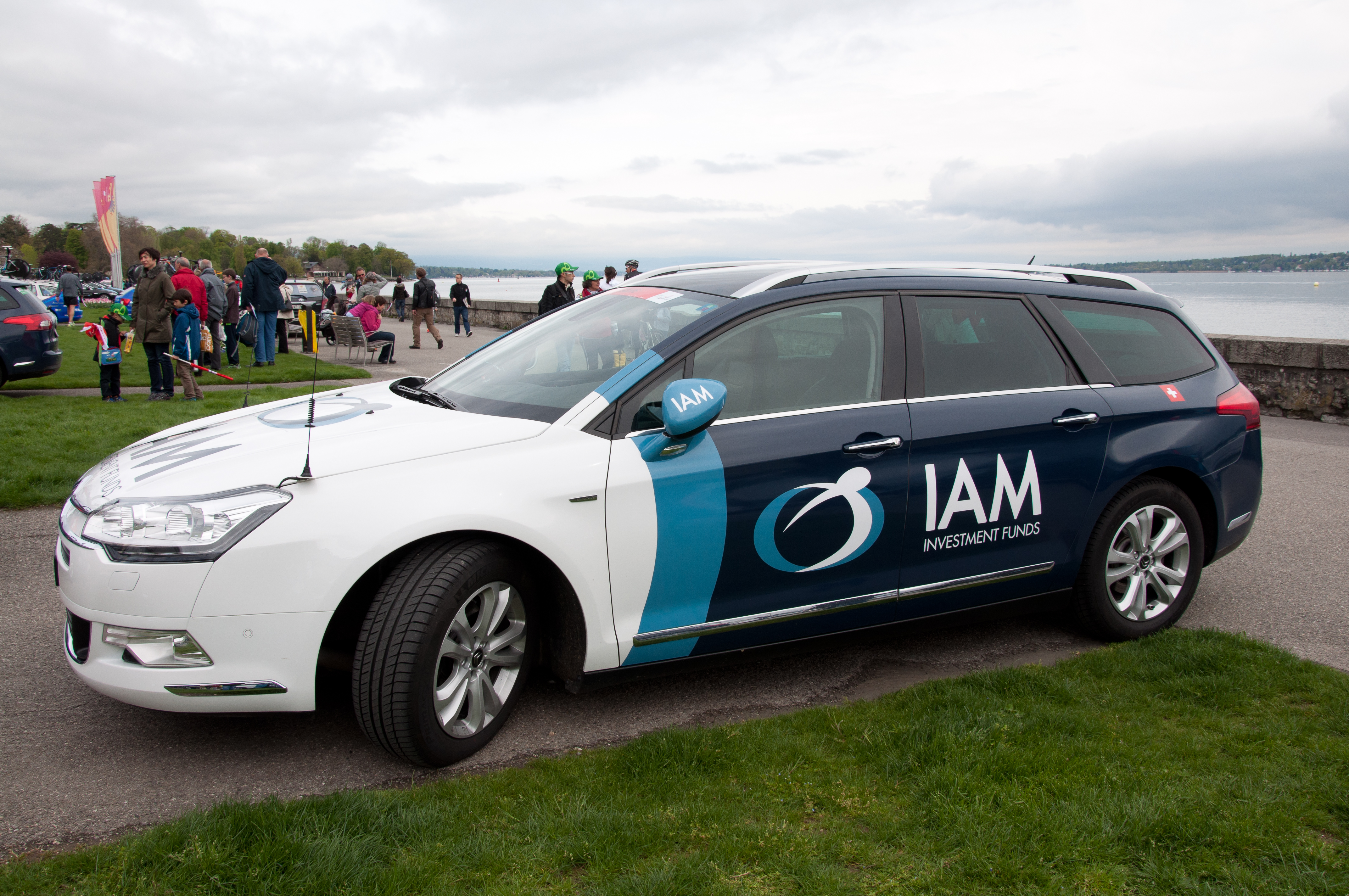 Team IAM Cycling's car at the 2013 Tour de Romandie's fifth stage, in Geneva, Switzerland.